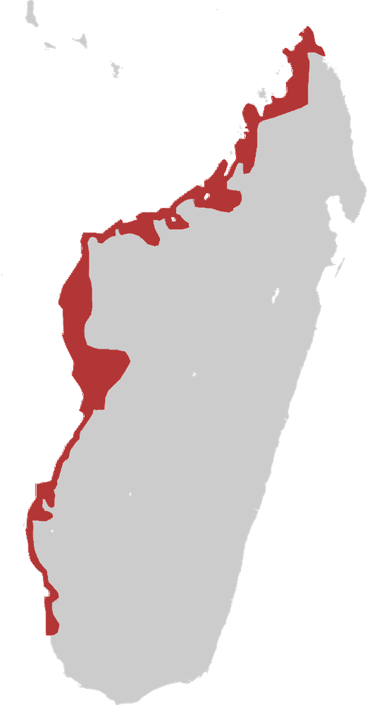 The Madagascar Teal's Distribution.